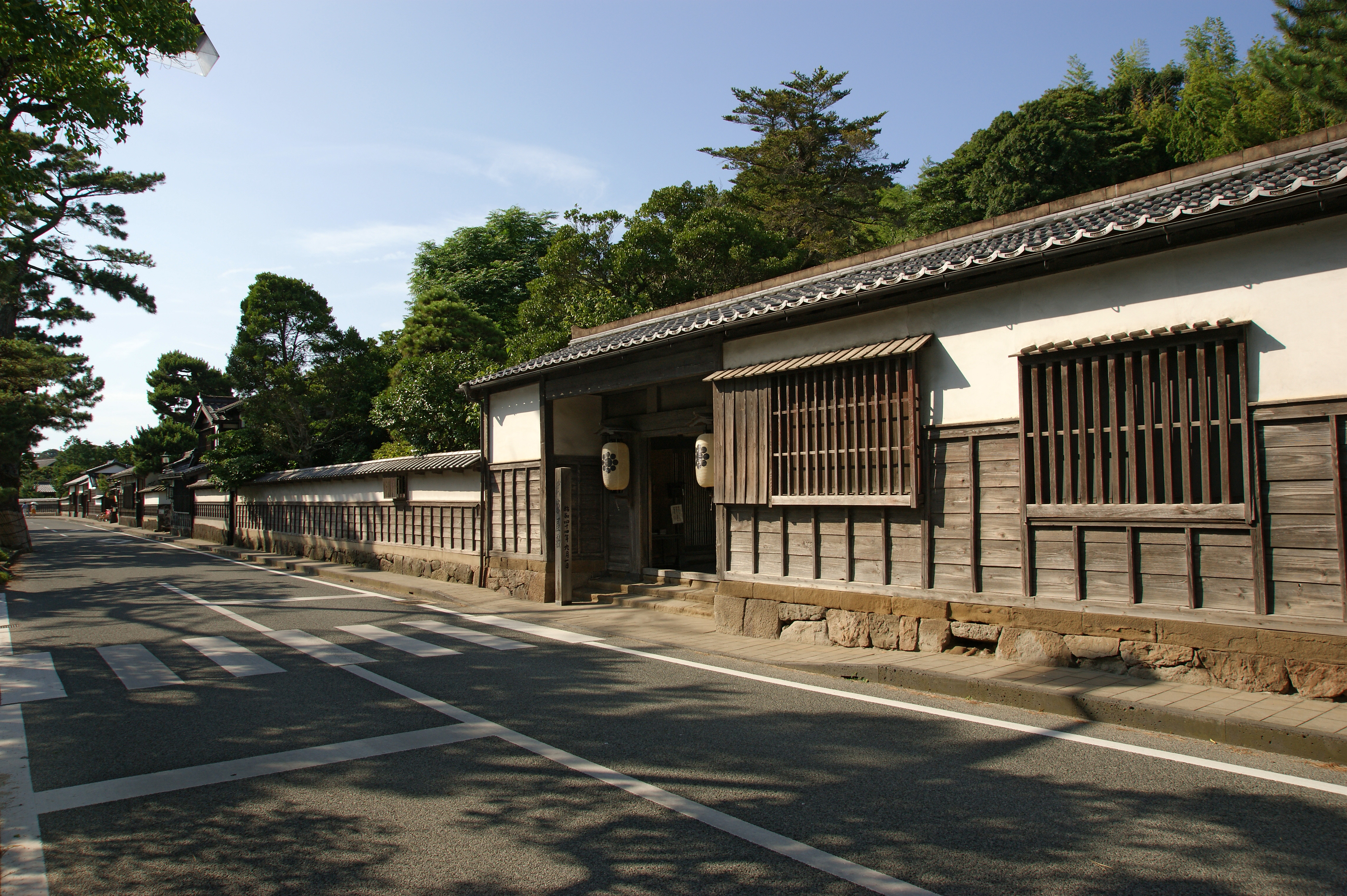 Shiominawate in Matsue, Shimane prefecture, Japan